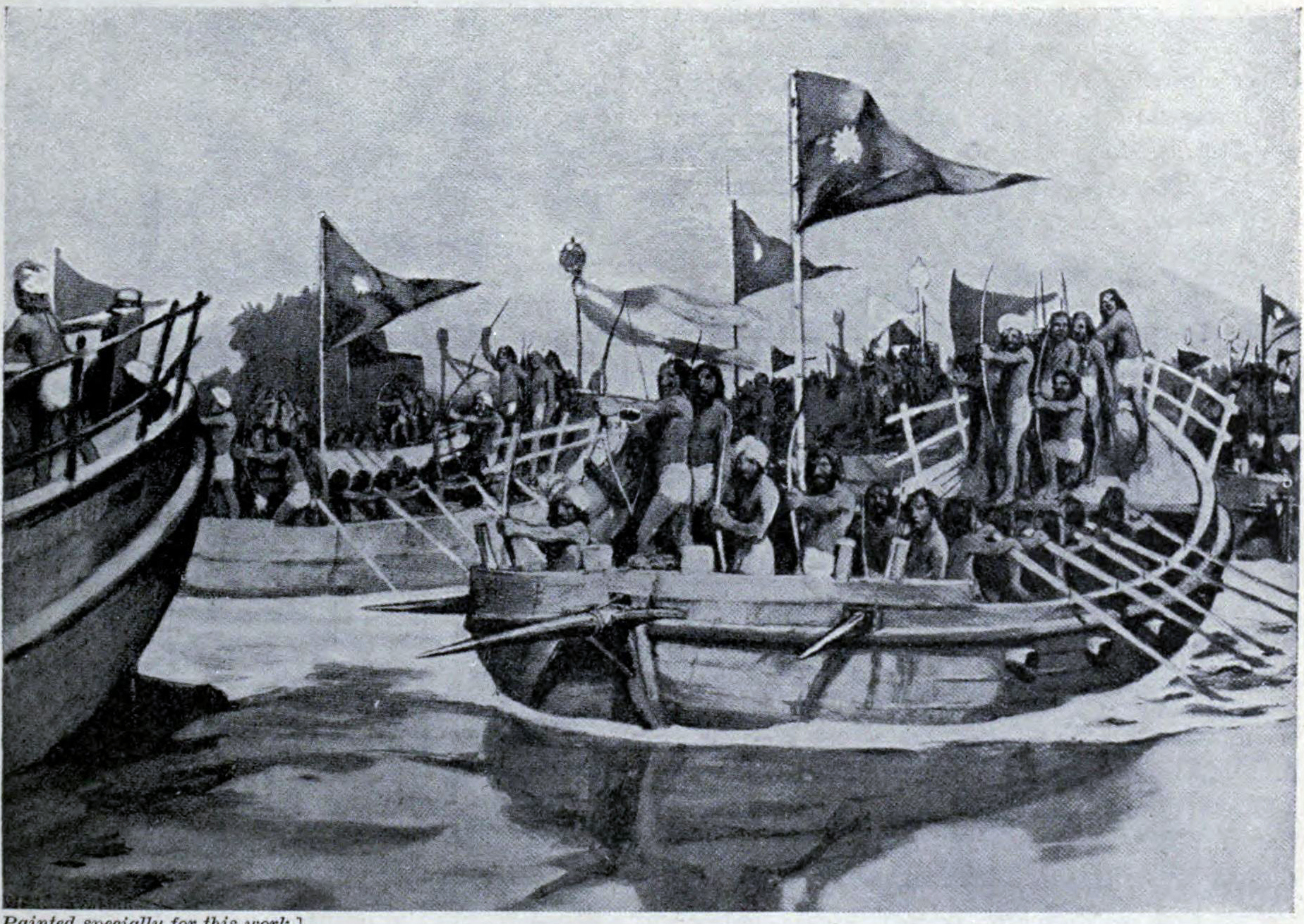 Mahmud of Ghazni last success. From Hutchinson's story of the nations, containing the Egyptians, the Chinese, India, the Babylonian nation, the Hittites, the Assyrians, the Phoenicians and the Carthaginians, the Phrygians, the Lydians, and other nations of Asia Minor.